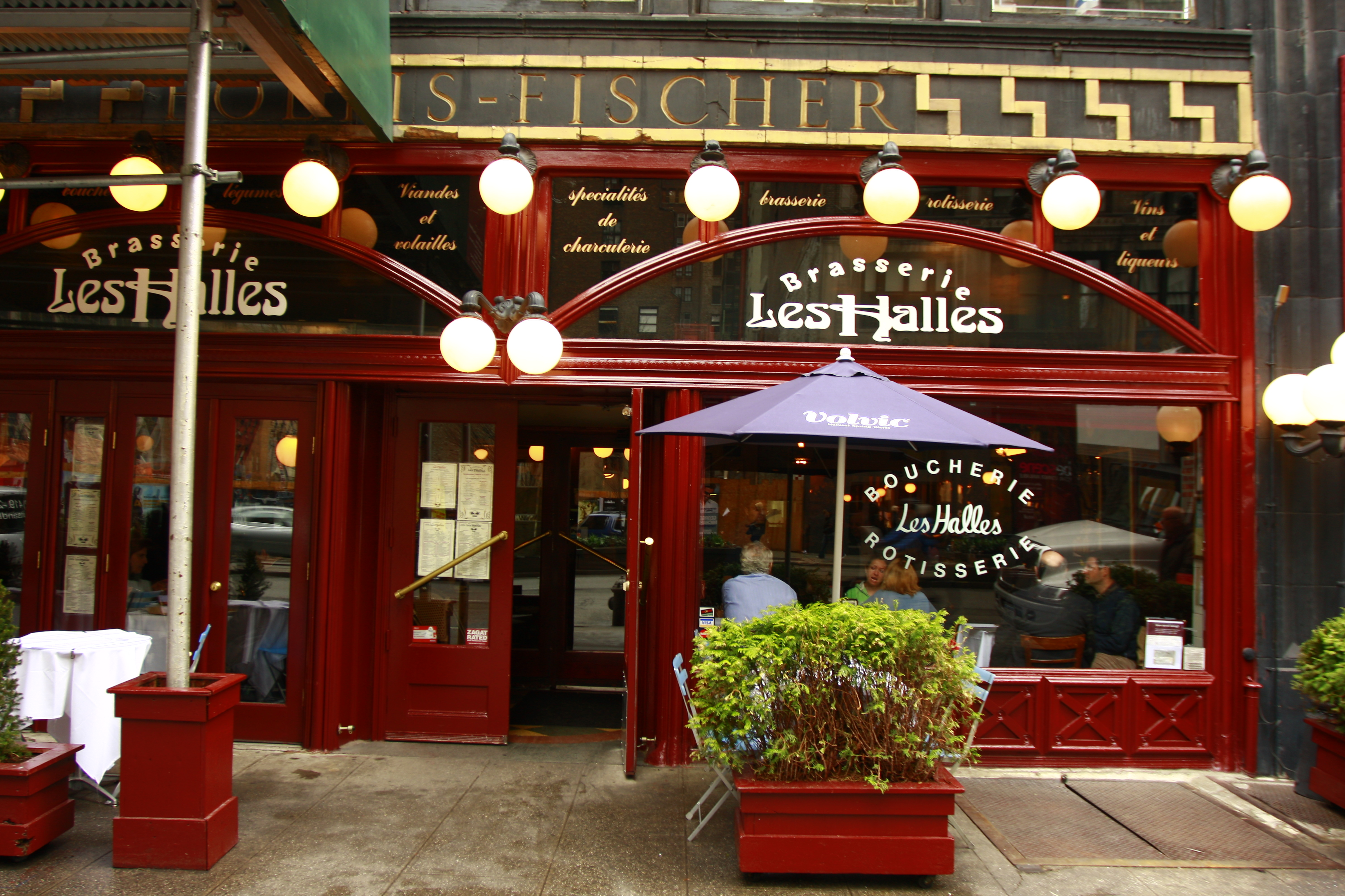 This photo is of Wikipedia Takes Manhattan location code 114, Brasserie Les Halles.